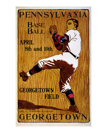 Poster from c.1901 promoting a baseball game between the University of Pennsylvania and Georgetown University.